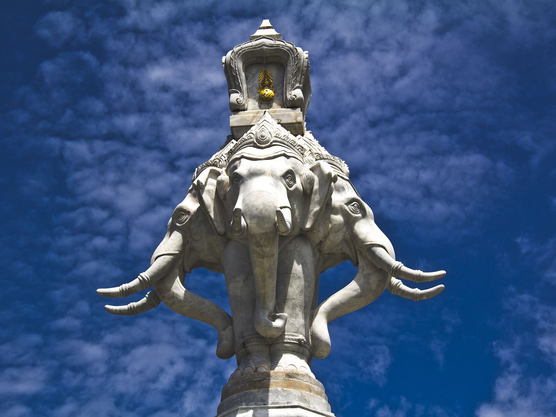 Erawan statue at Sanam Luang/Ratchadamnoen Road, Bangkok